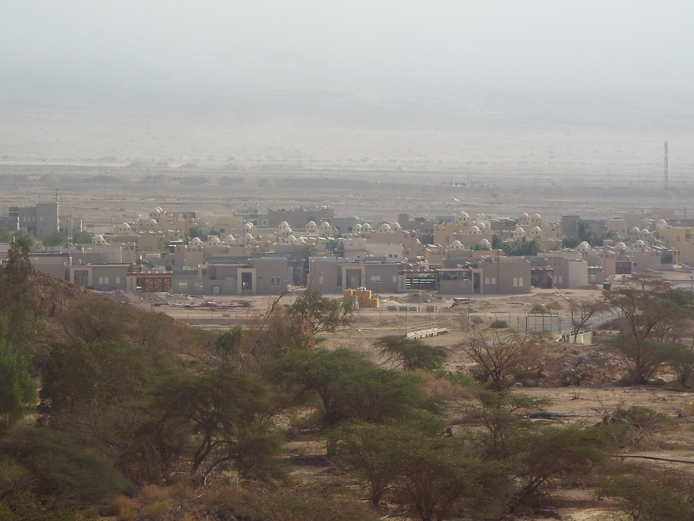 Be'er Ora - a view to East, to the Arava .